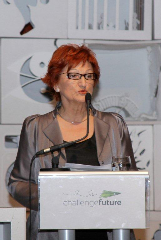 Prof. Dr. Danica Purg, President of IEDC-Bled School of Management